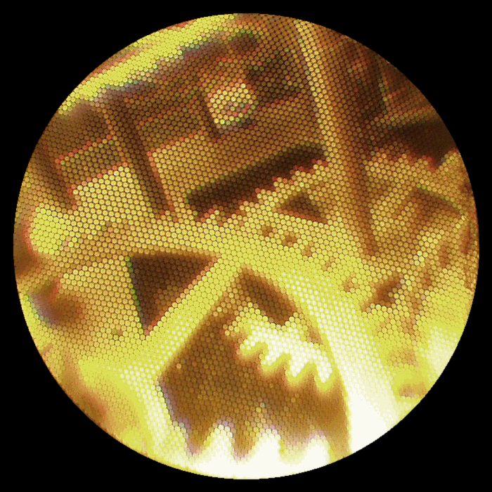 View through a low-cost mechanic/carpentry fiberscope (SLI PV300, with approx 6000 fibers). View is inside an antique clock.